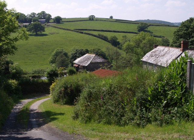 Higher Tregada Looking across the valley of the Lowley Brook from the A388 at Tregada. The farm on the far side is Tredivett.